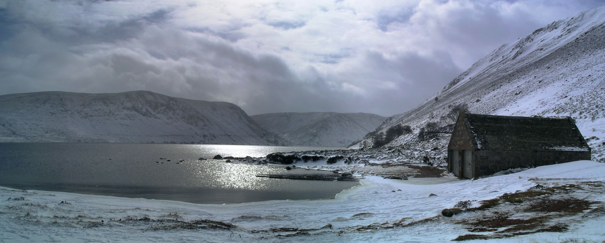 Loch Muick panorama. The result of 5 days heavy snowfall/blizzards. Aberdeenshire, Scotland.